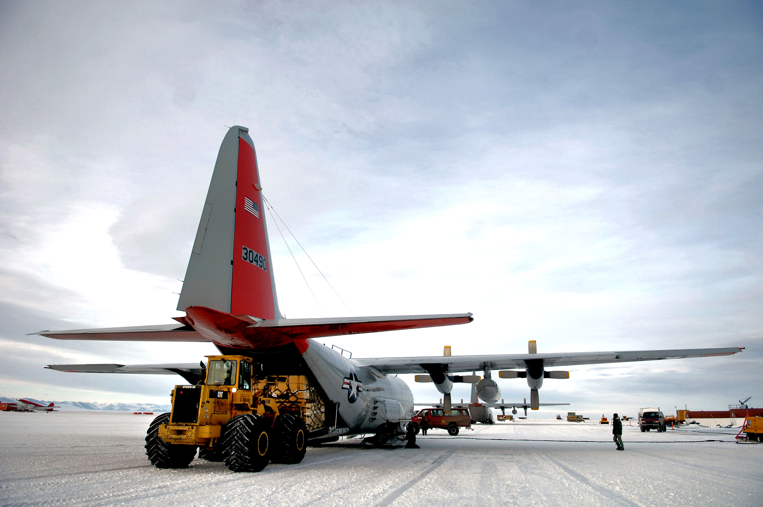 An LC-130 Hercules is unloaded Nov. 27 on the ice runway near McMurdo Station, Antarctica, during Operation Deep Freeze. Ski-equipped LC-130s, crews and support personnel from the New York Air National Guard's 109th Airlift Wing are supporting the 13th Air Force-led Joint Task Force Support Forces Antarctica, Operation Deep Freeze. Operation Deep Freeze is a unique mission that supports the National Science Foundation and U.S. Antarctic Program. (U.S. Air Force photo/Tech. Sgt. Shane A. Cuomo)